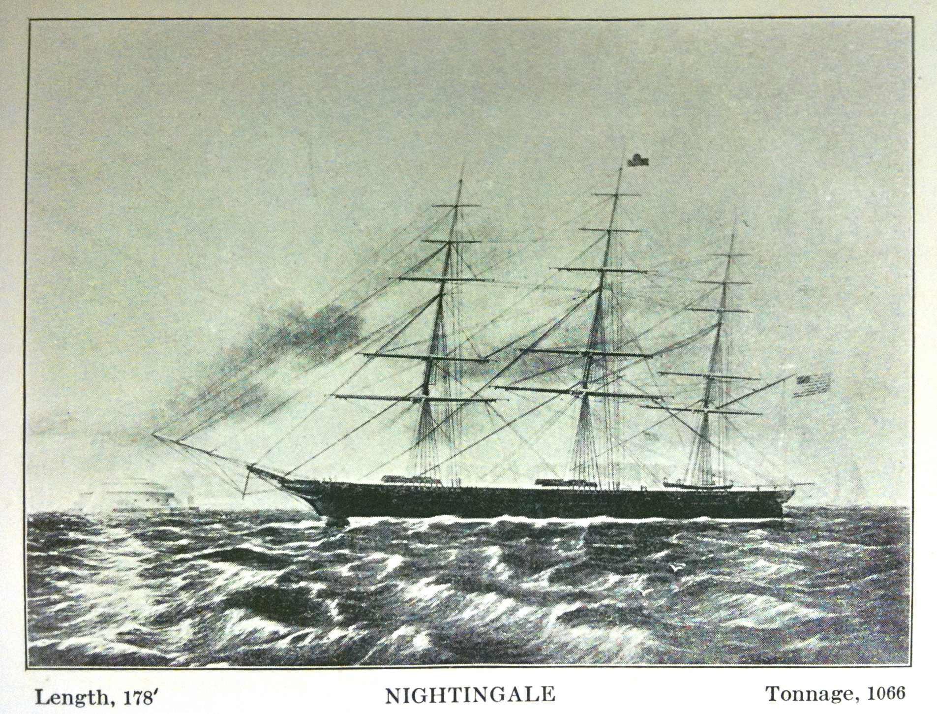 Clipper Nightingale, length 178 ft (54.2 m), 1066 tons, built 1851 in Maine.